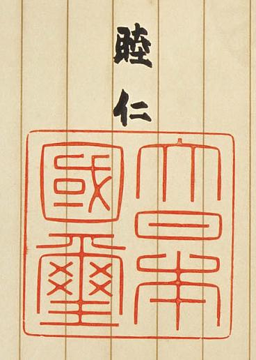 The Imperial sign and The Japanese seal of state "睦仁 大日本國璽"